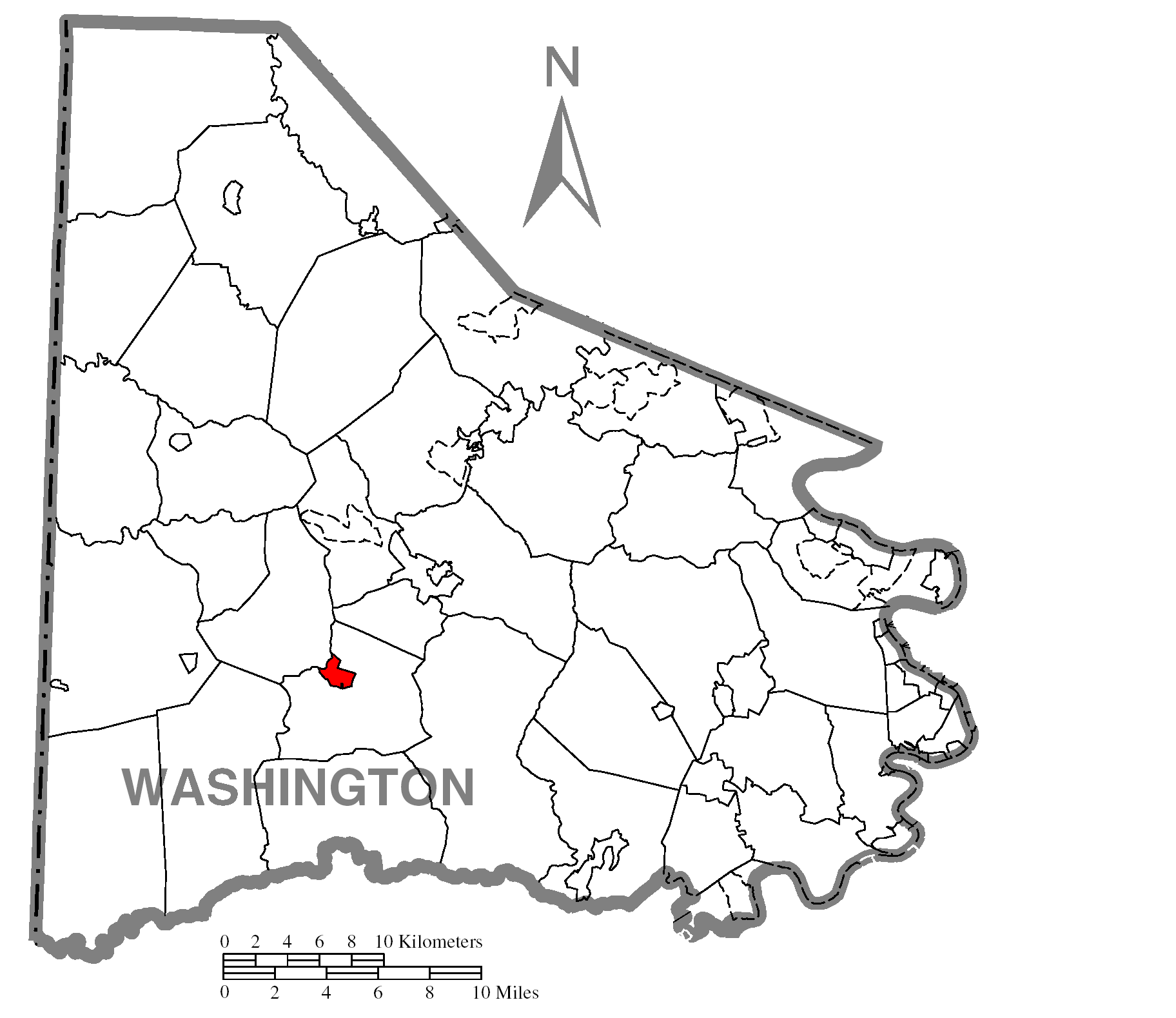 Map of Washington County higlighting Green Hills.